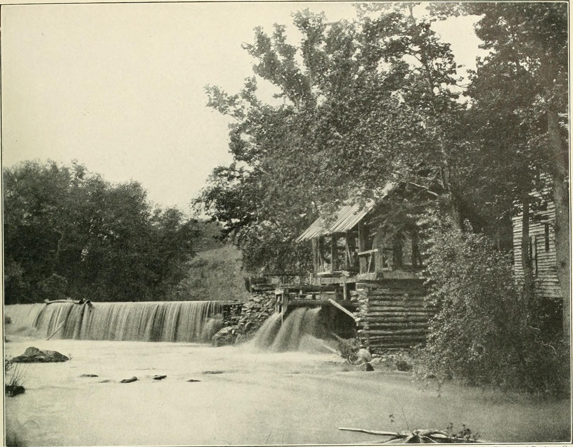 Title: The photographic history of the Civil War : thousands of scenes photographed 1861-65, with text by many special authorities Year: 1911 (1910s) Authors: Miller, Francis Trevelyan, 1877-1959 Lanier, Robert S. (Robert Sampson), 1880- Subjects: United States -- History Civil War, 1861-1865 Pictorial works United States -- History Civil War, 1861-1865 Publisher: New York : Review of Reviews Co. Text Appearing Before Image: ' Text Appearing After Image: Copyright by Review of lUvieivs Cu. A TRIUMPH OF THE WET-PLATE It seems almost impossible tliat tliis photograph could have been taken before the advent of modern pho-tographic apparatus, yet Mr. Gardners negative, made almost fifty years ago, might well furnish a strikingexhiliit in a modern photographic salon. The view is of Quarles Mill, on the North Anna River, Virginia.In grassy fields above the mill the tents of the headquarters of Grant and Meade were pitched for a dayor two during the march which culminated in the siege of Petersburg. Among the prisoners brought inwhile the army was here in camp was a woman clad in Confederate gray, apparently performing the dutiesof a scout. She was captured astride of a bony steed and asserted that she belonged to a battery of artillery.This wild creature, with her tangled black locks hanging down her neck, became the center of interest tothe idlers of the camp. At these she would occasionally throw stones with consideraljle accuracy, partic